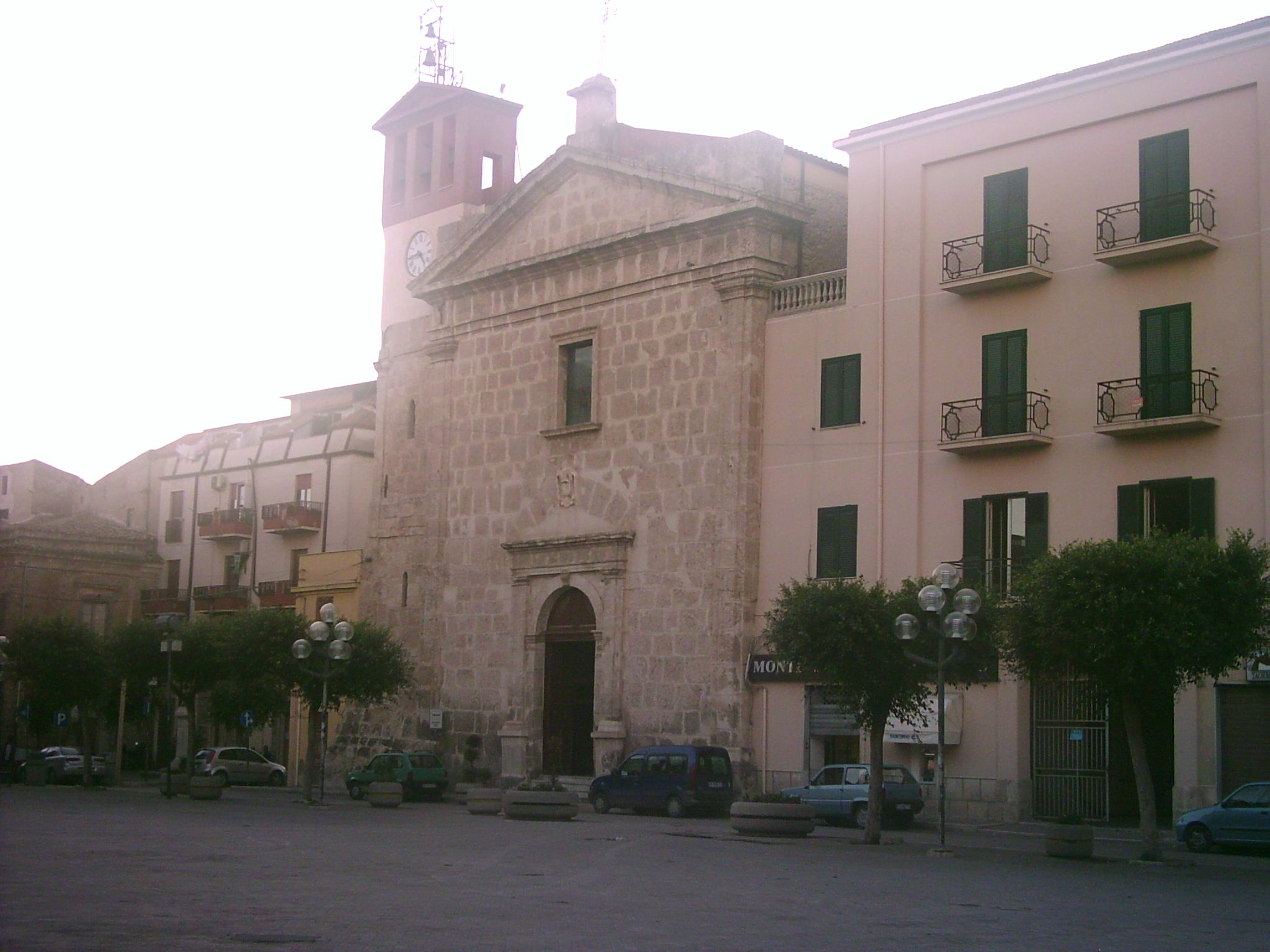 Garibaldi Square in Riesi